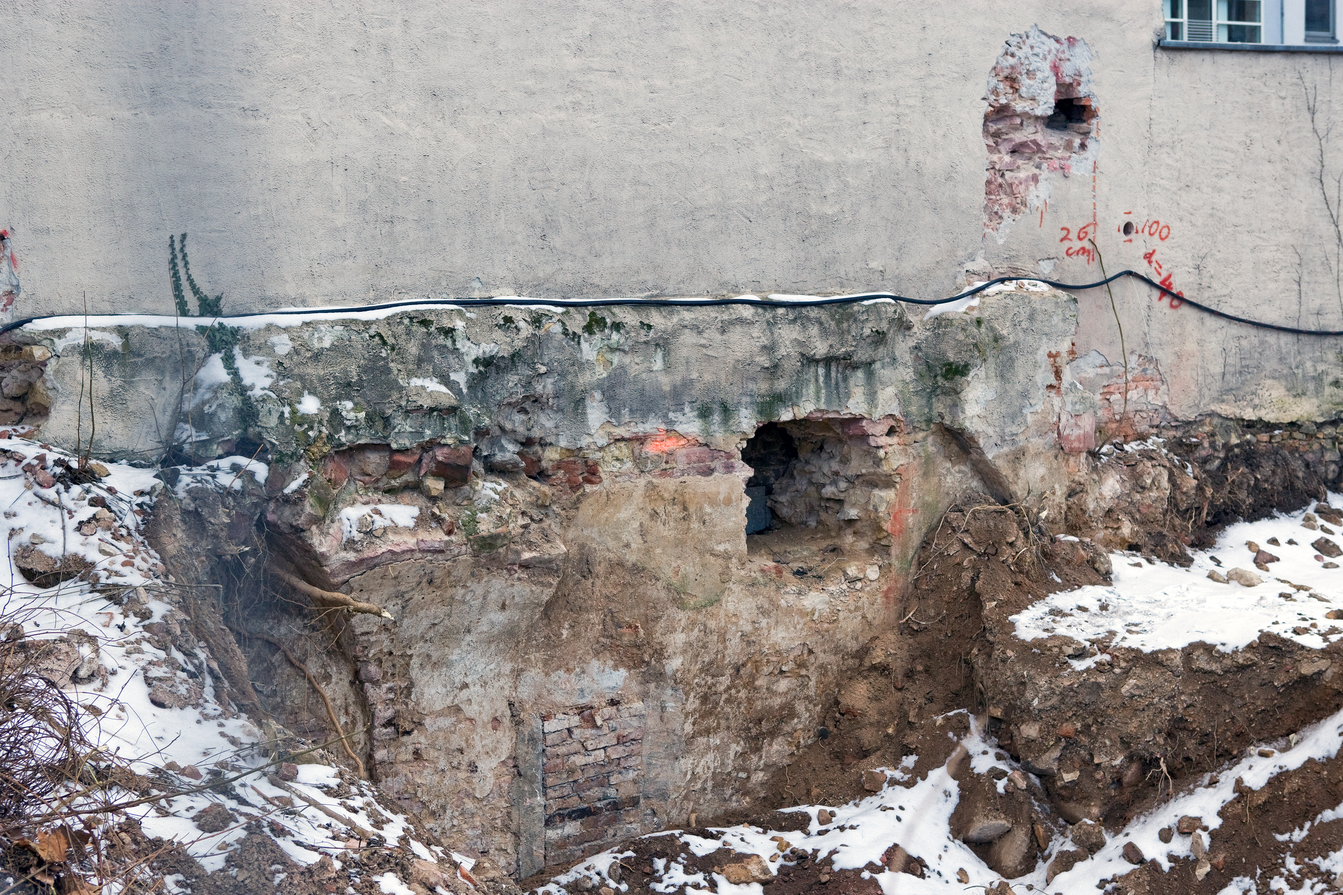 Frankfurt on the Main: Schopenhauerhaus (Schopenhauer House), view of the cleared fire wall to the neighbouring house Schone Aussicht 15 (Beautiful View 15) with partially walled openings from the time of the Second World War, to the left remains of a pillar of the original vaulted cellar